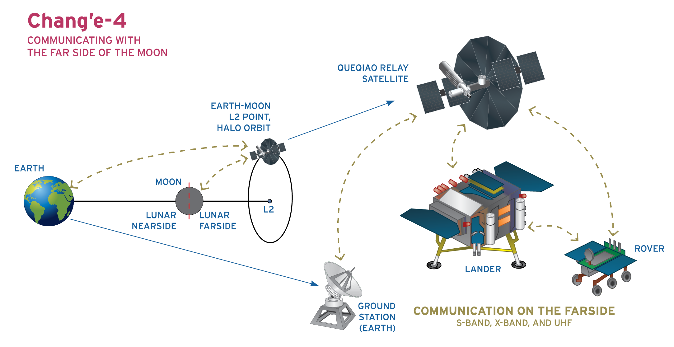 Chang'e 4 mission profile